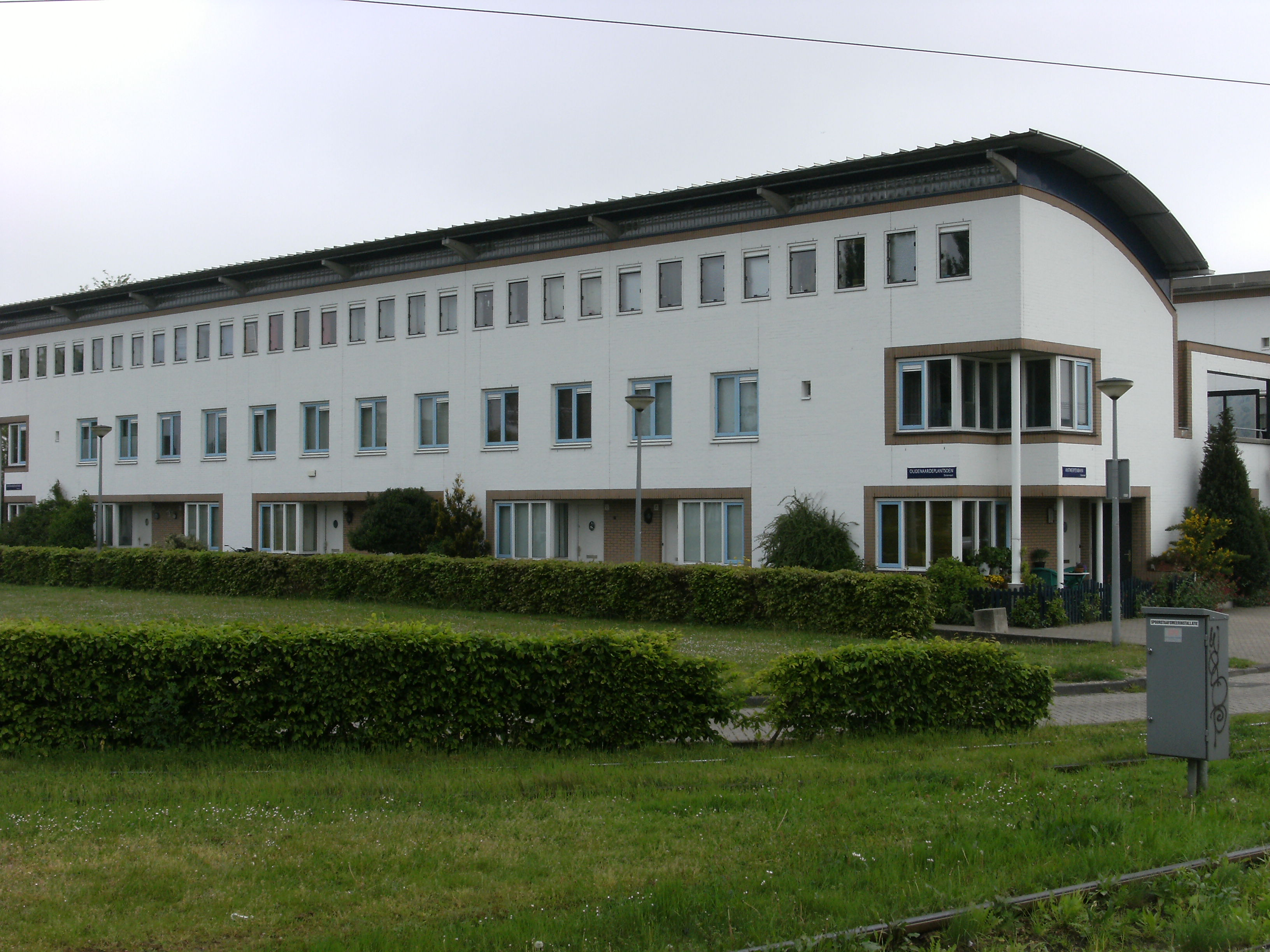 Houses at corner Antwerpenbaan and Oudenaardeplantsoen, LHHR architects.